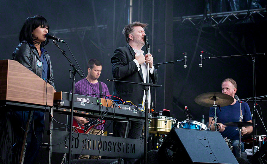 LCD Soundsystem performs at Quart Festival in Kristiansand on 28. June 2016. Lineup:James Murphy (vocal)Nancy Whang (keyboard)